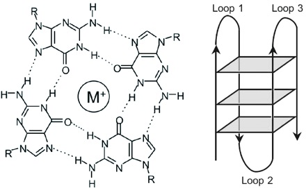 Picture of G-Quadruplex DNA tetrad and stack